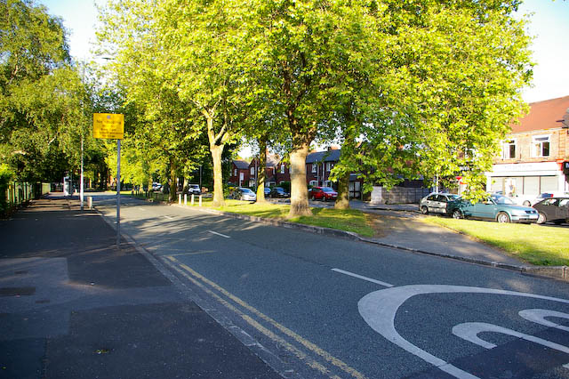 Mauldeth Road West, Chorlton Cum Hardy. Chorlton Park Primary School is to the left of the photo. The road was constructed in the 1920s as a dual carriageway, with a central reservation reserved for electric trams. It was intended that this road would link to a widened Hardy Lane, which was extended to cross the river Mersey. The Hardy Lane Extension was never built, and tram lines were never laid. The median strip was planted with plane trees instead. The trees were felled in 2011 to make way for an extension of the Metrolink tram network towards Manchester Airport, which will run along the centre of this road and along Hardy Lane.